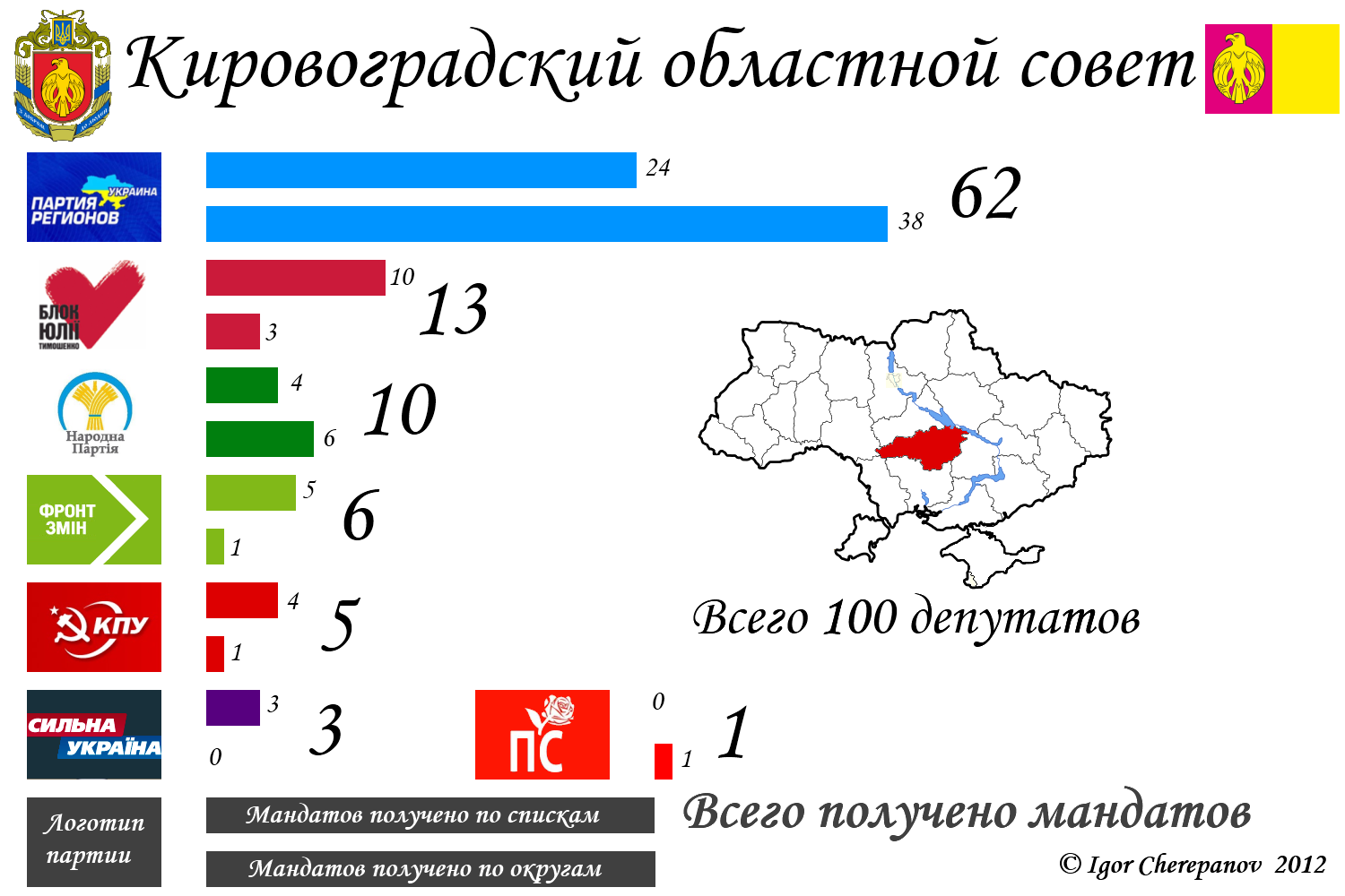 Results of Kirovograd Oblast local election 2010